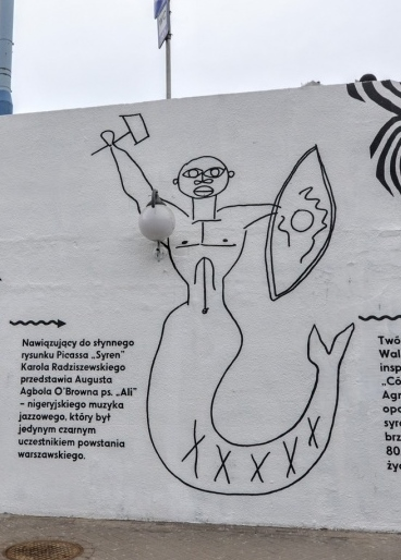 Warsaw mural, based on drawing by Karol Radziszewski, refering to Warsaw mermaid (coat of arms of the city).